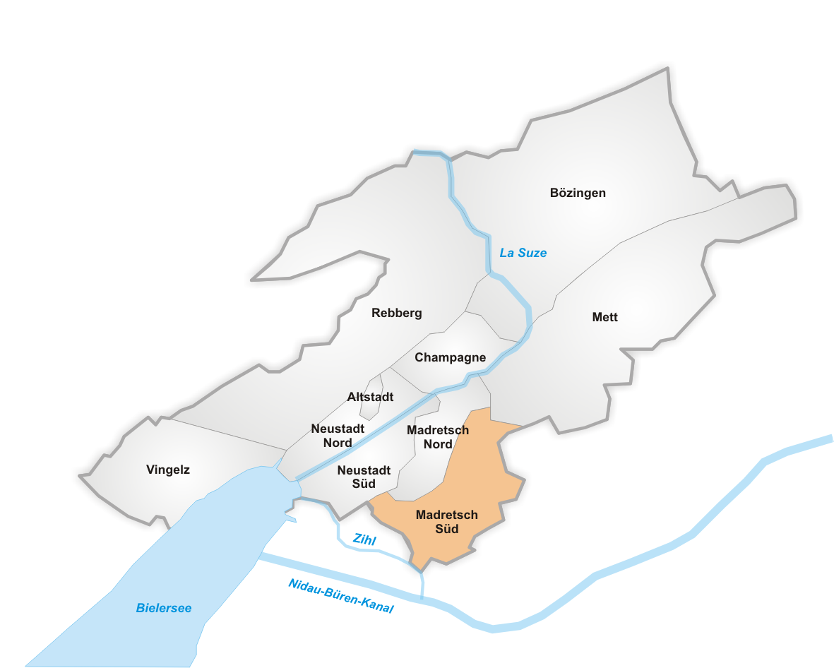 Biel Quarter Madretsch Süd